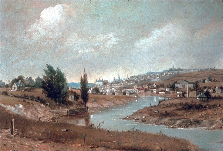 Painting, The Little River Lairet, Quebec, Henry Richard S. Bunnett, 1886, Oil on canvas, 26 x 36 cm